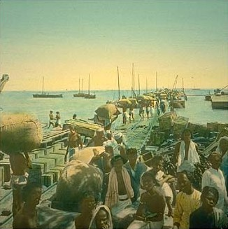 Tuticorin - crowded boat landing (Jackson's own caption) Porters carrying big bags, people watching the camera in the foregrounds, sailing boats in the background Magic lantern image from Tamil Nadu